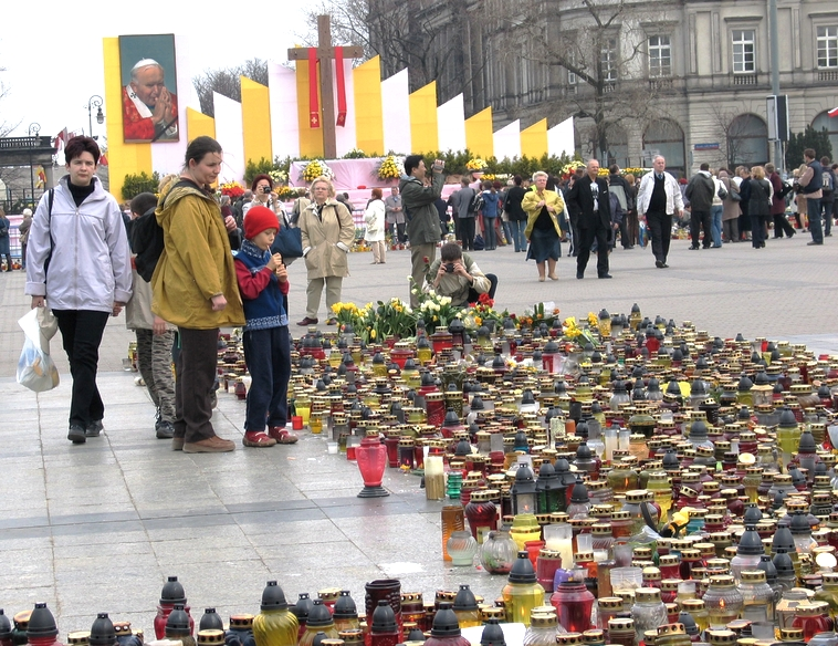 Warszawa Plac Jana Pawła II 7 kwietnia 2005 - released in 2005 by author M. Betley